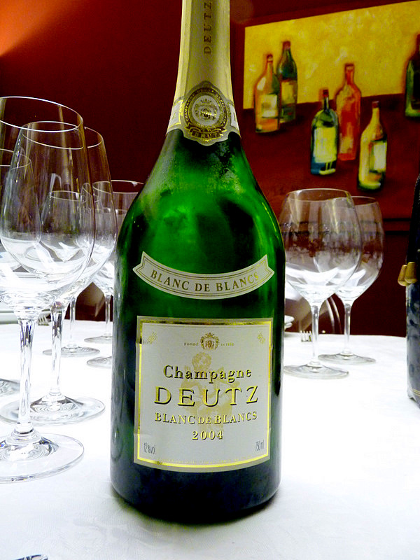 A blanc de blancs (Chardonnay) Champagne from the French wine producer Deutz